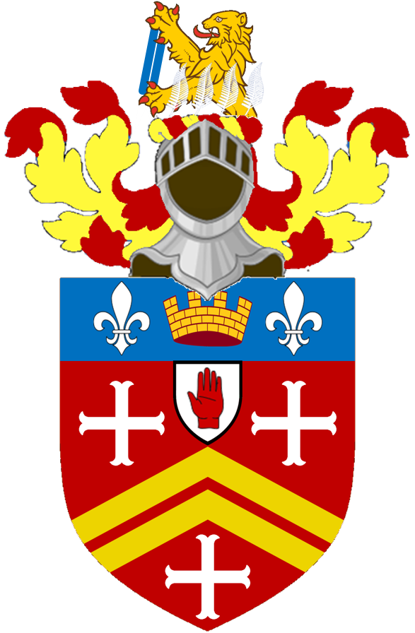 The armorial achievement of the Thatcher baronets of Scotney